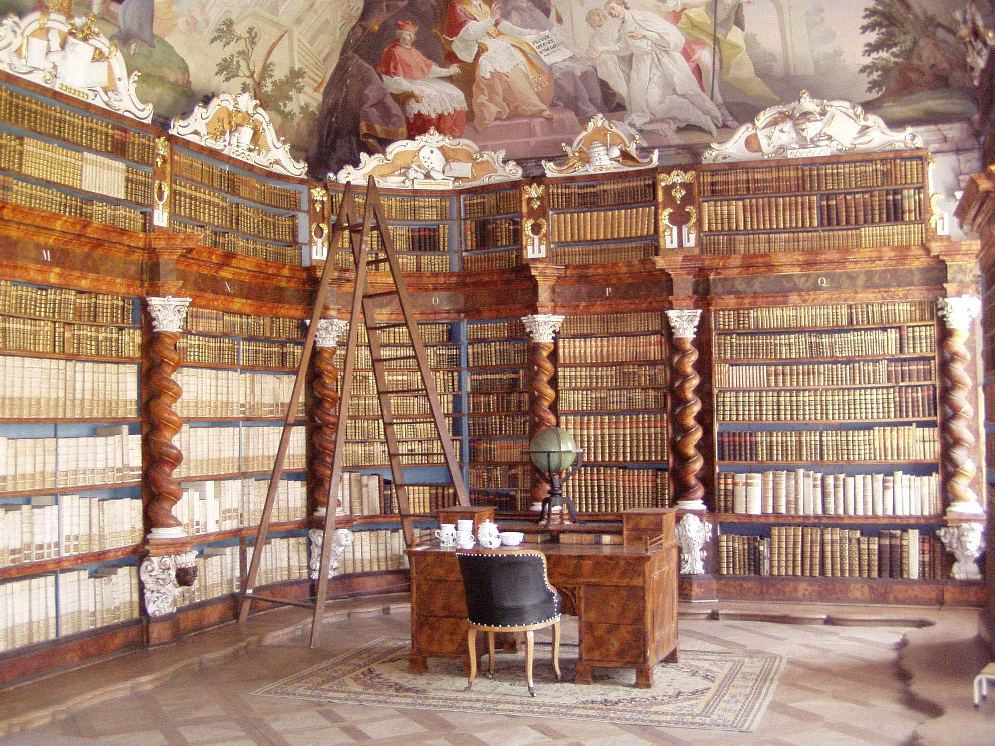 Library of the monastery of Nová Říše, south Bohemia, Czech Republic.